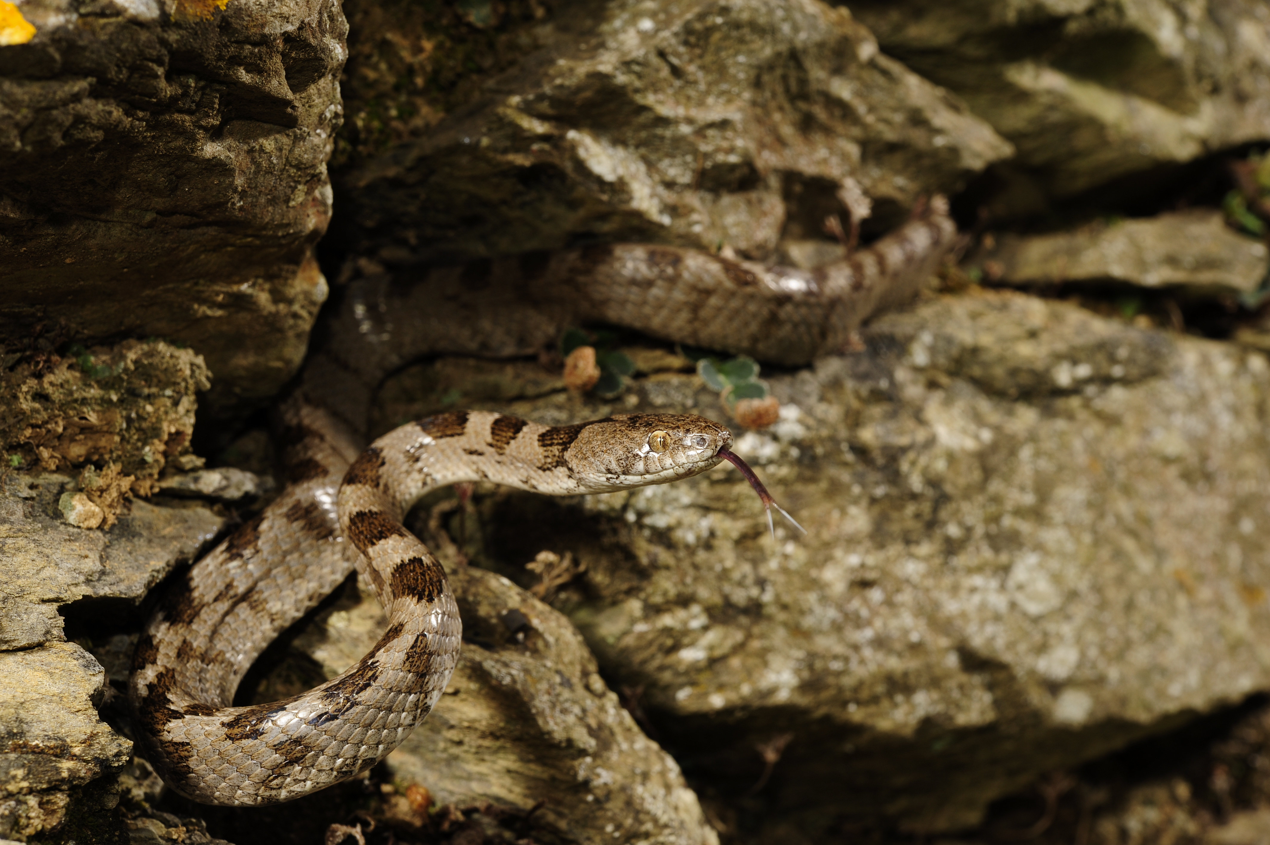 European cat snake (Telescopus fallax)